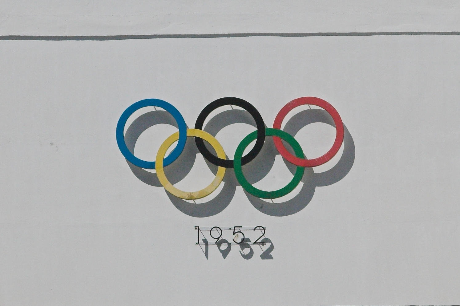 The Olympic rings from 1952 venue, Helsinki. Photo by Thermos.